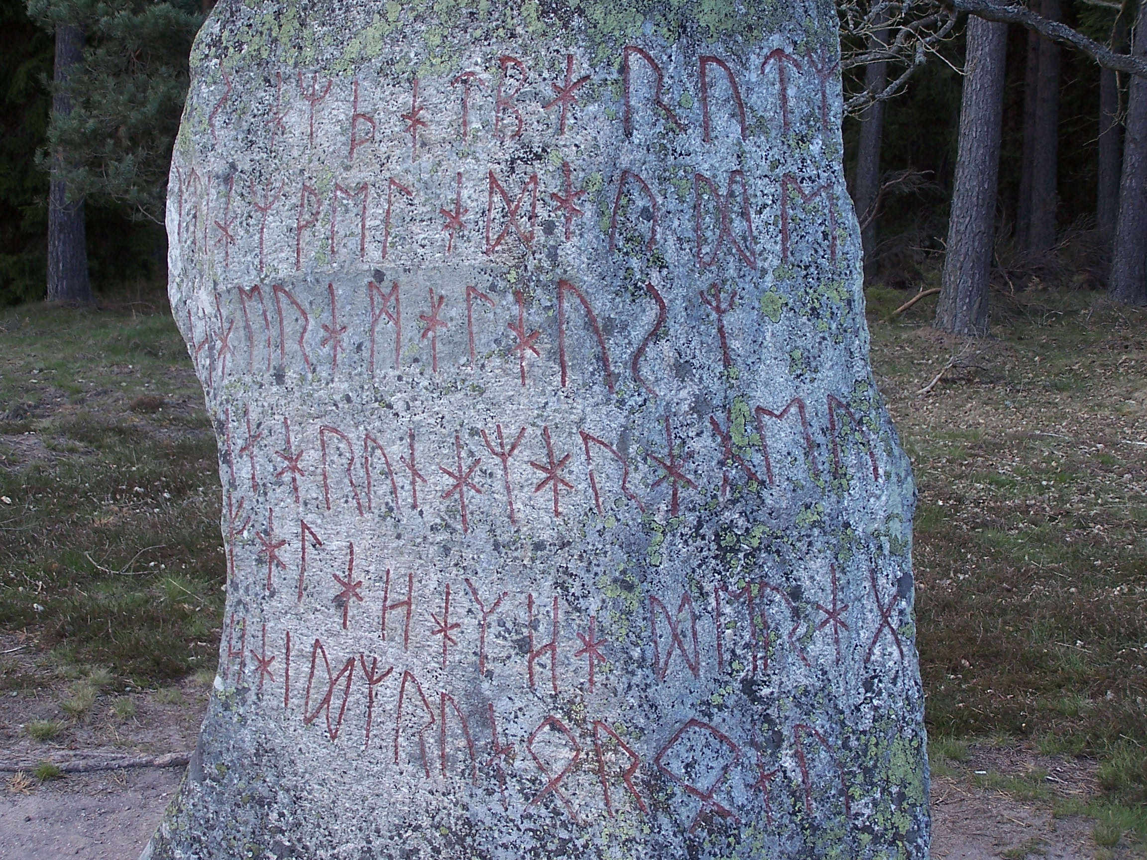 Björketorpsstenen (Björketorp Stone) at Björketorp, municipality of Ronneby